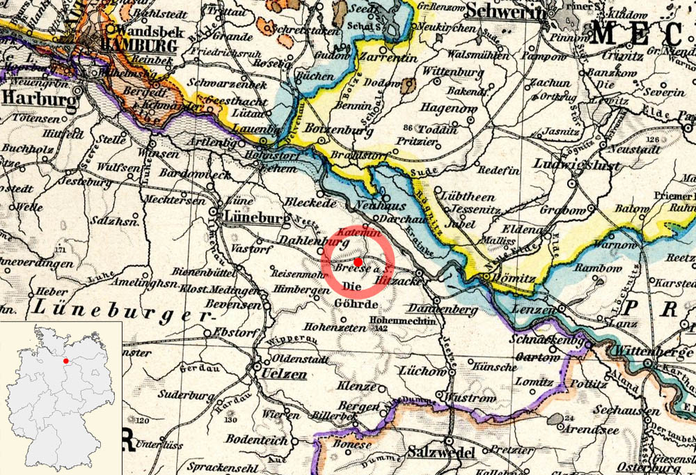 Göhrde railway stop in Breese am Seisselberge at the railway line Wittenberge–Buchholz.